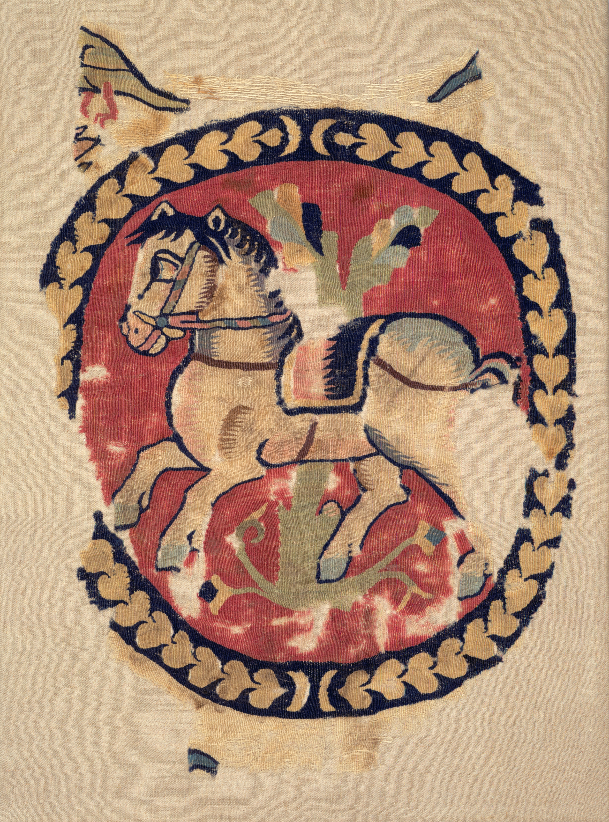 This large roundel framed with hearts displays a saddled horse galloping through a landscape, indicated by the stylized tree. The secondary motif of birds, partially visible in the corners, was repeated with the large roundels to form a colorful curtain. The many shades of color were skillfully achieved from only a few dyes, often the most expensive aspect of production: red and pink made from an insect dye, perhaps Armenian cochineal; blue from indigo; salmon (horse's nose and belly), yellow, and brown from fustic (different colors caused by the mordant, probably alum); green from fustic and indigo; and purple (horse's mane) from madder and indigo.